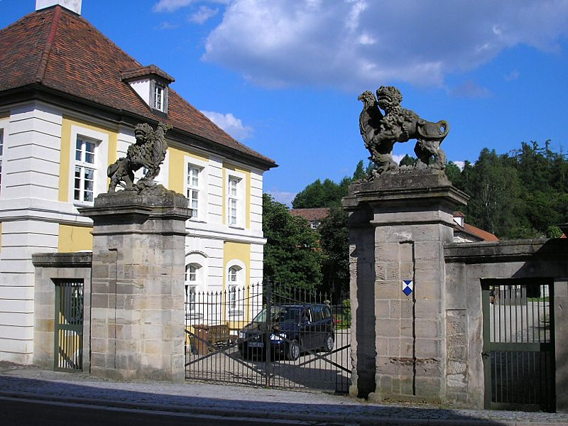 Birkenfeld Castle, Lower Franconia, Germany. Entrance to the Castle. Own photo, June 2006.